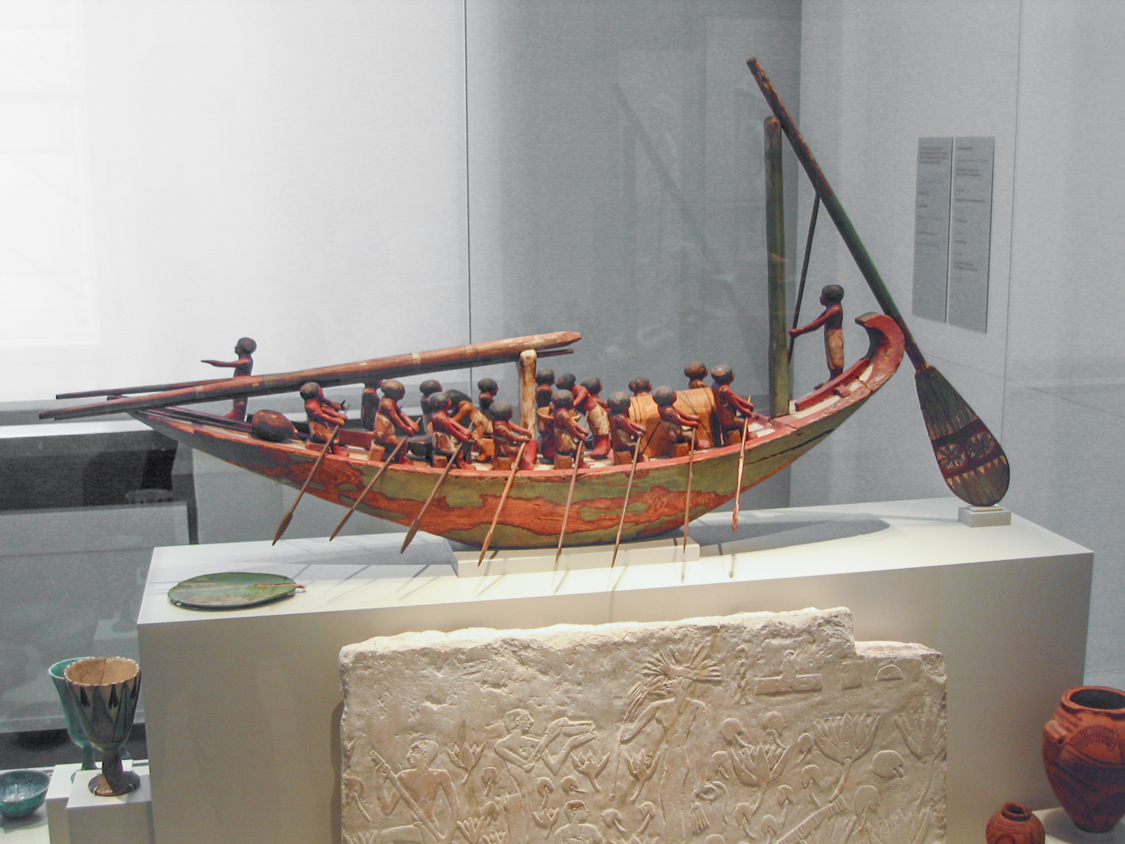 Object in the Ägyptisches Museum Berlin (Egyptian museum, building of the New Museum), Berlin.